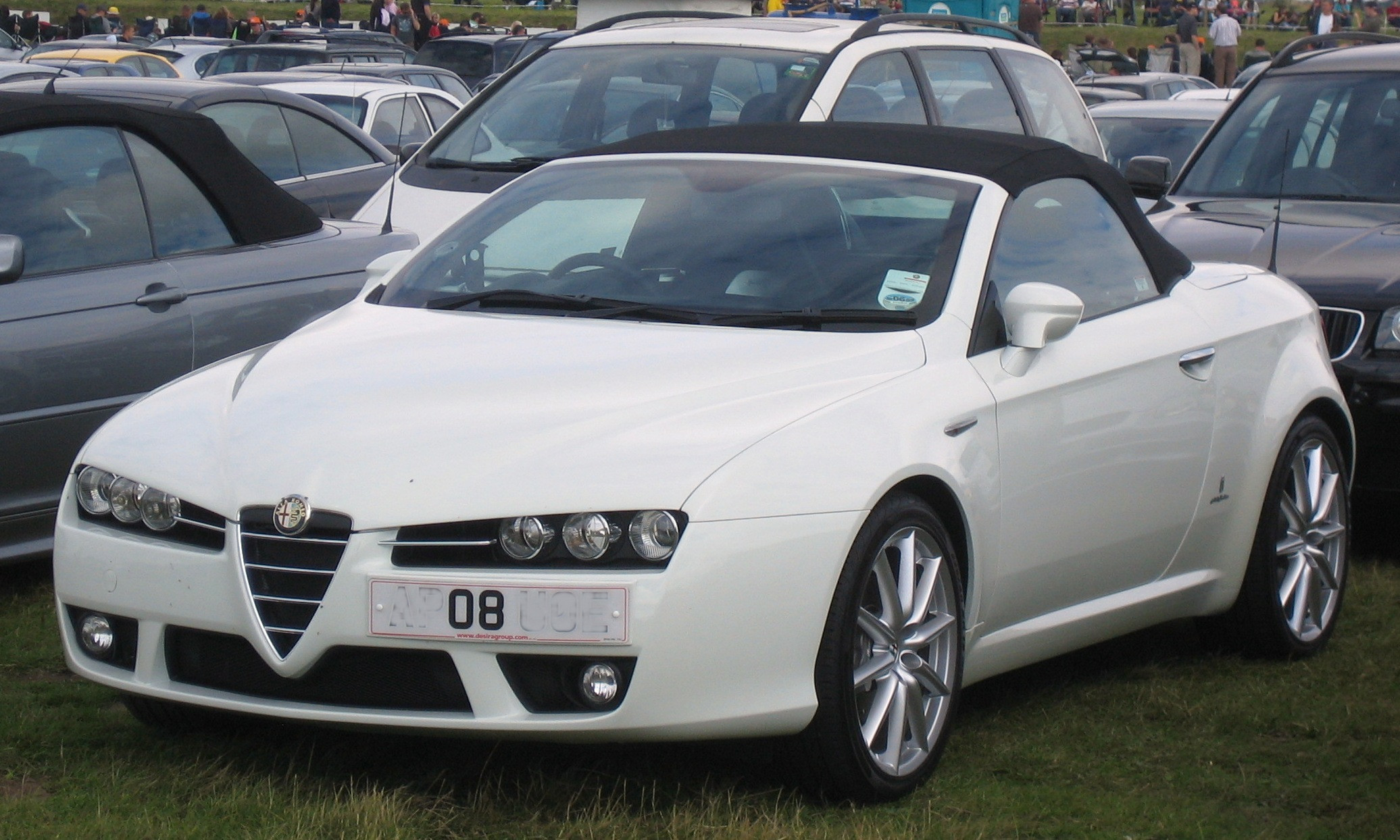 Alfa Romeo Spider at Snetterton 2008